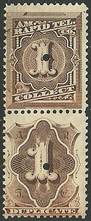 1881 1c American Rapid Telegraph Company stamps for the payment on delivery (collect) service and the duplicate stamp for records keeping.